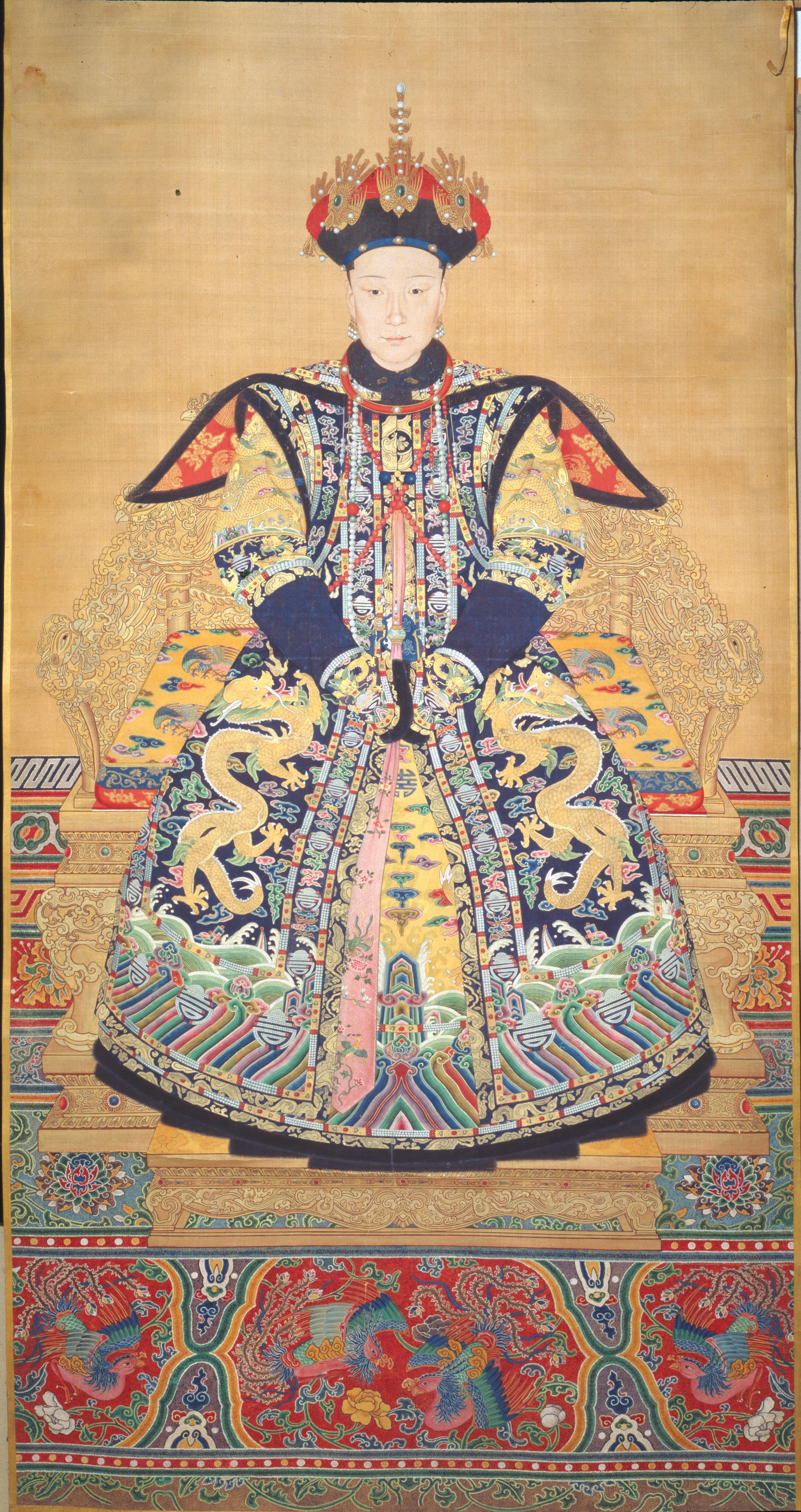 Court painting workshop, Beijing, China Portrait of an empress, possibly Xiaoxianchun, wife of Emperor Qianlong Ink and color on silk Gift of Mrs. Elizabeth Sturgis Hinds, 1956. E33619 Peabody Essex Museum